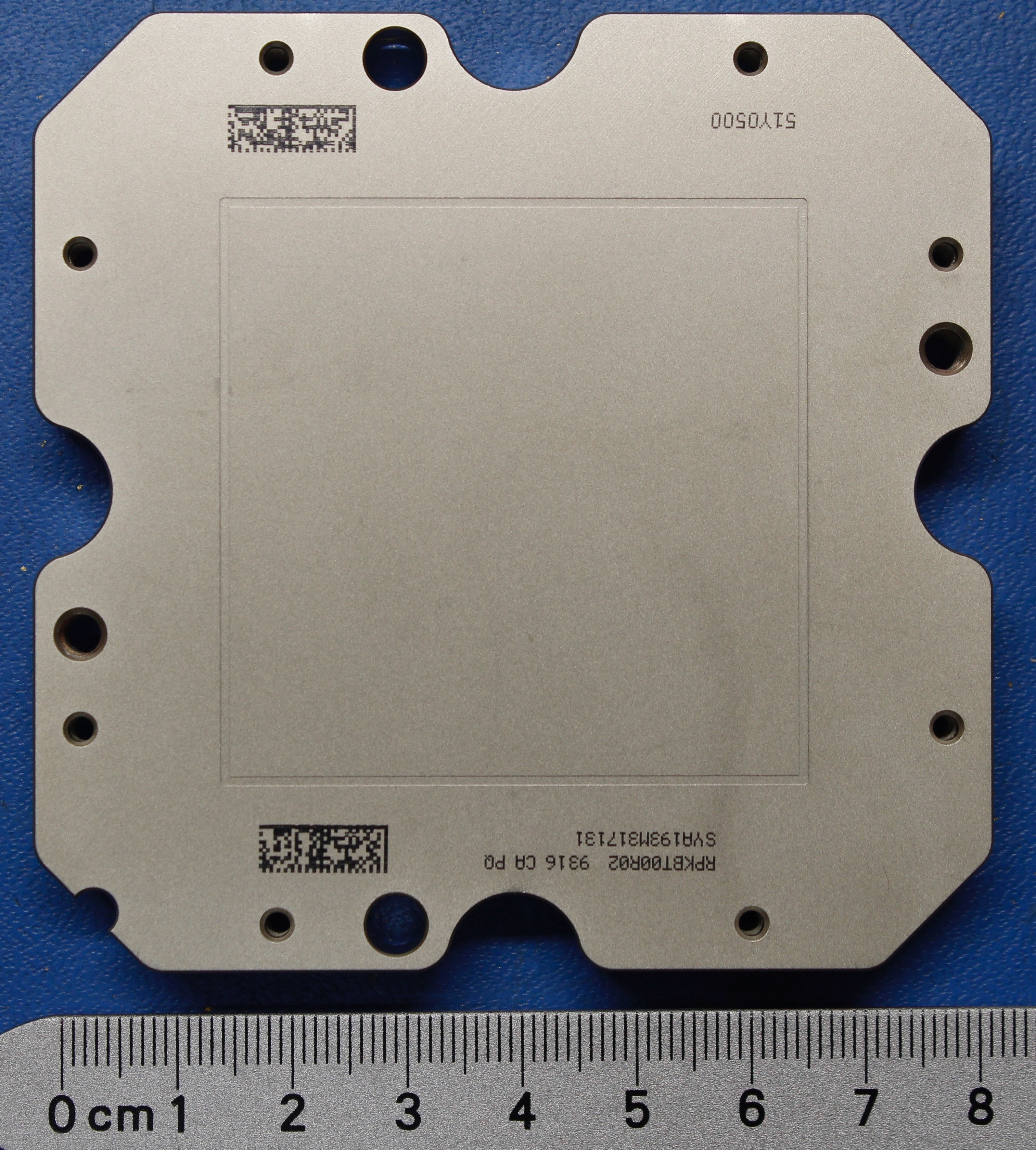 IBM Power7 4ghz 8-way CPU IHS top from an IBM 9119